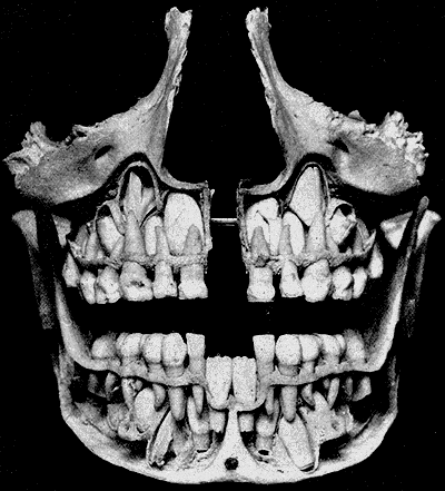 Front view of the skull shown in Fig. 1000. Note the relation of the permanent incisors and cuspids to each other and the roots of the temporary teeth. (Noyes.) Age can be estimated at 6.5 years old. Mandibular first permanent molars are fully erupted (~6 years), mandibular central incisors are mostly erupted (~6-6.5 years). The crown of the permanent second molars are not calcified, which means the skull is also younger than eight years old.